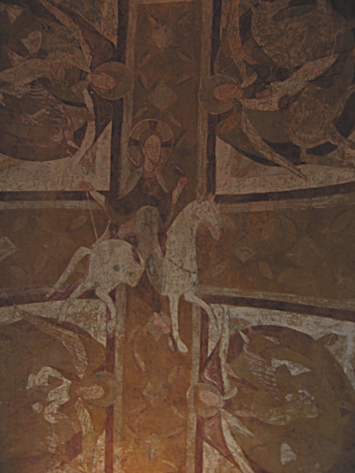 Painting in the crypt of St Etienne of Auxerre, XIIe century.